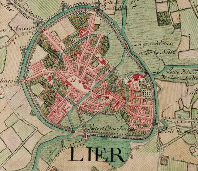 Lier,_Belgium_;_ detail from Ferraris_Map